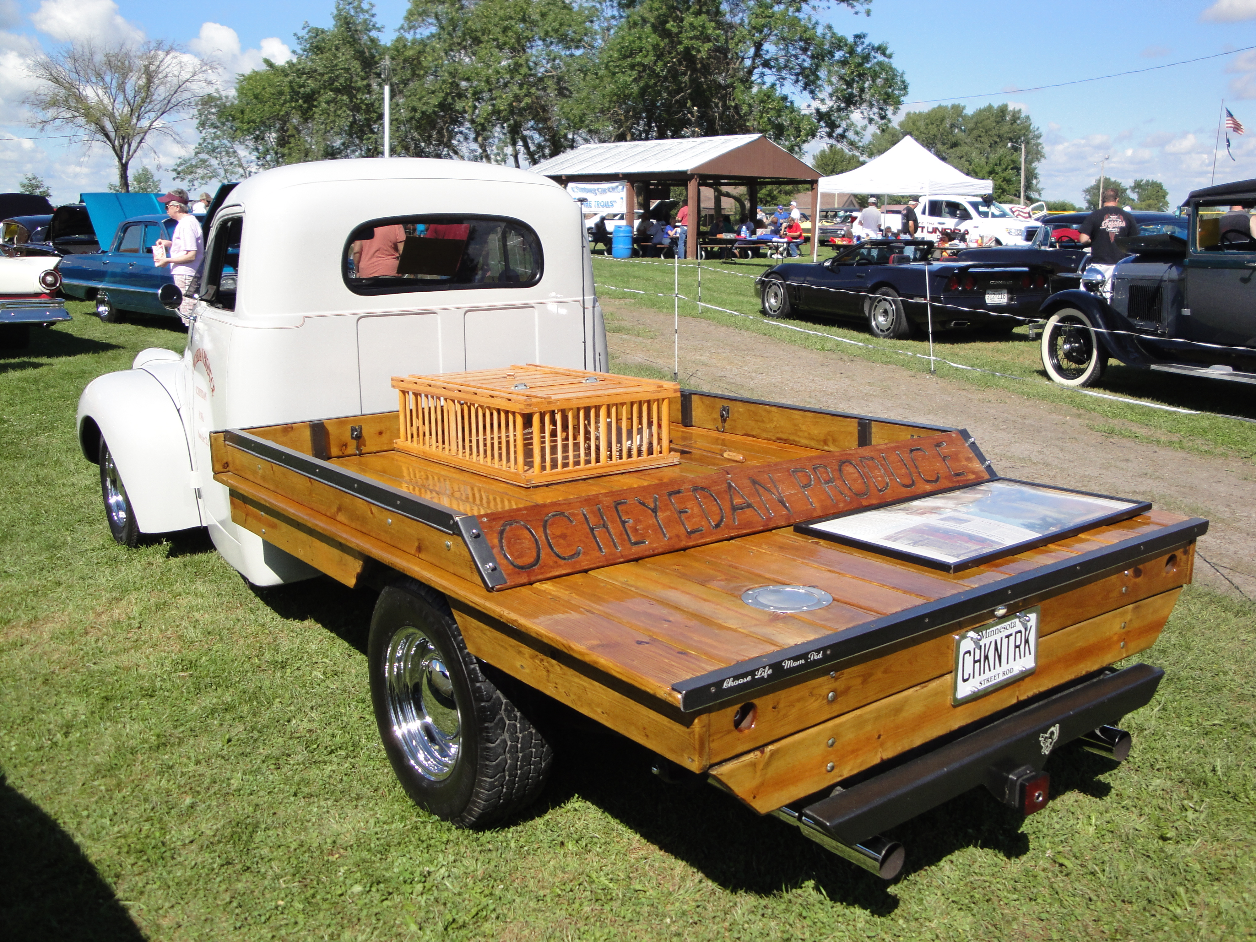 3rd Annual Trolls Car Show, September 5,2011. Sunburg Community Center